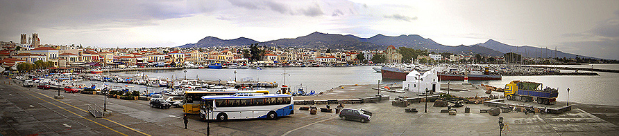 Greek island of Aegina, panorama of the harbour